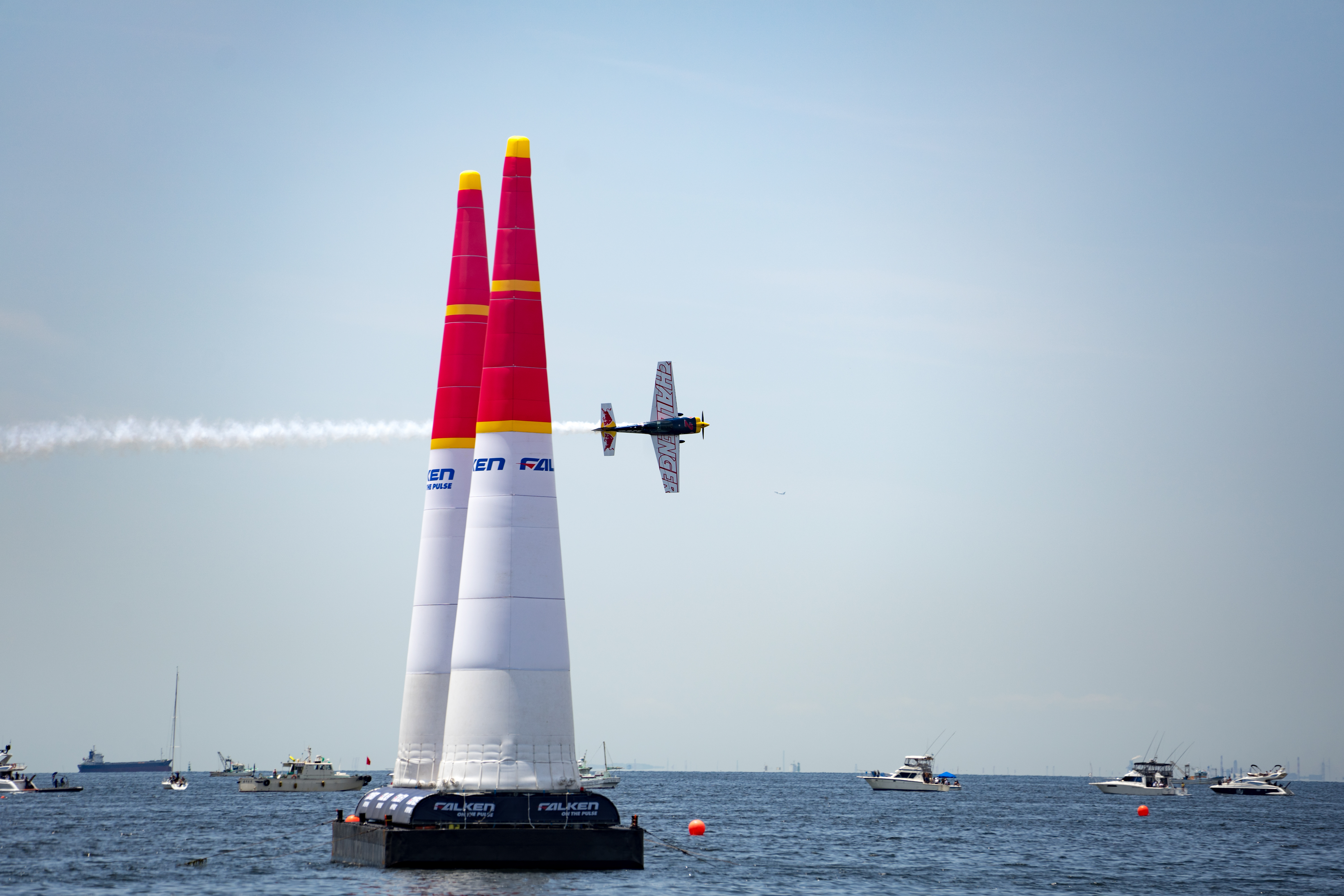 RED BULL AIR RACE CHIBA 2017-227.jpg